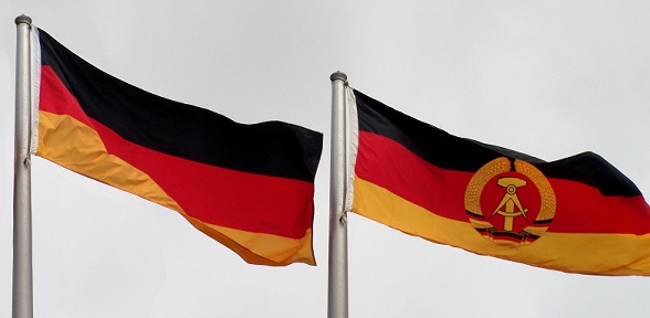 Flags of (western) Germany and East Germany, taken at the Montreal Olympic Stadium